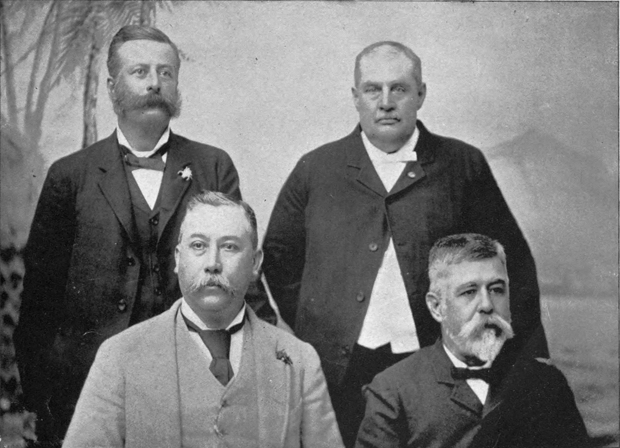 The Cabinet of the Kingdom of Hawaii in November 1892. Left to right: Attorney General Cecil Brown, Minister of Foreign Affairs Mark P. Robinson, Minister of Finance Peter Cushman Jones, and Minister of the Interior George Norton Wilcox. They were asked to resign on January 13, 1893, and Queen Lili'uokalani was deposed four days later.